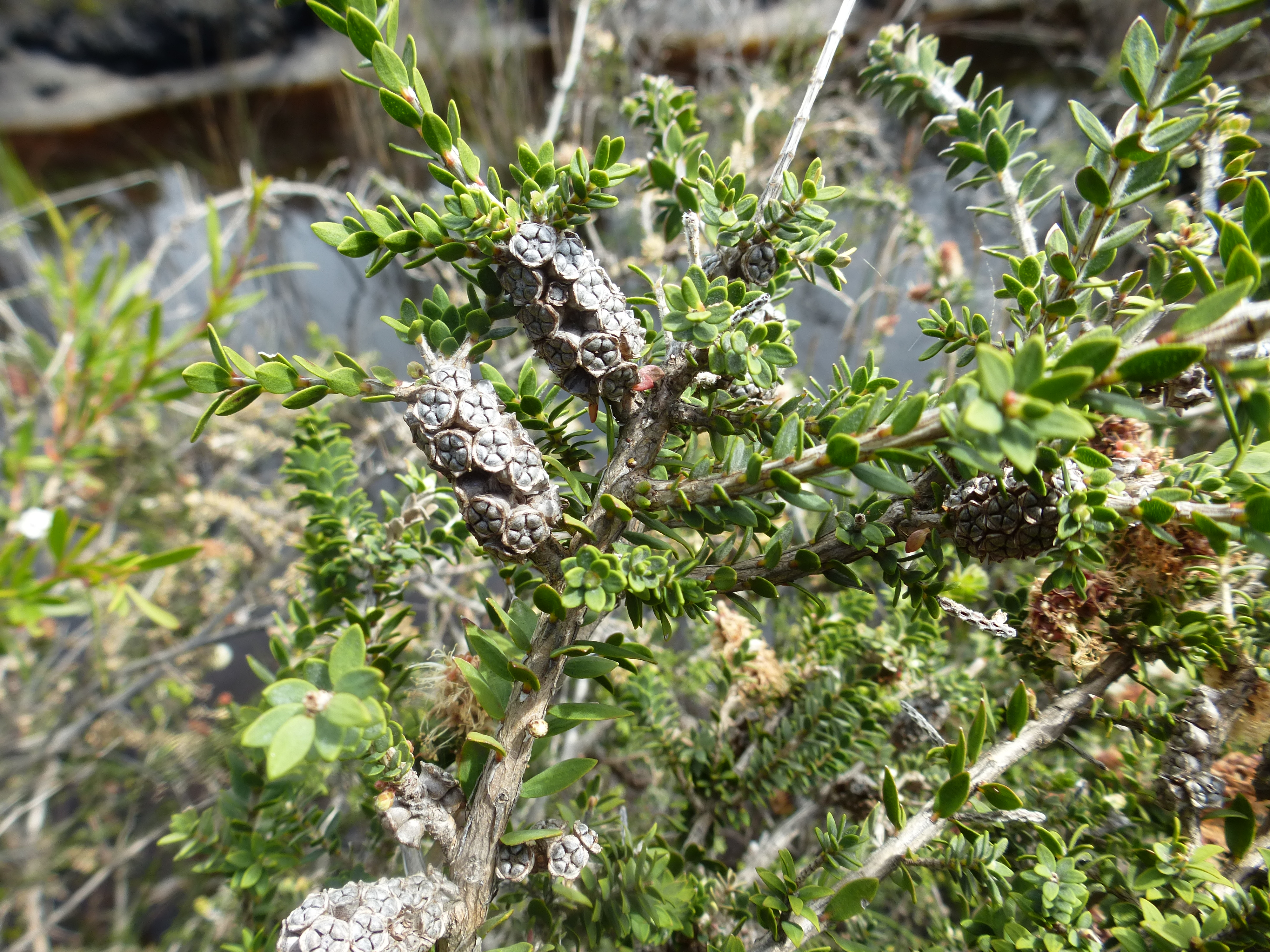 Melaleuca incana incana growing near Point d'Entrecasteaux